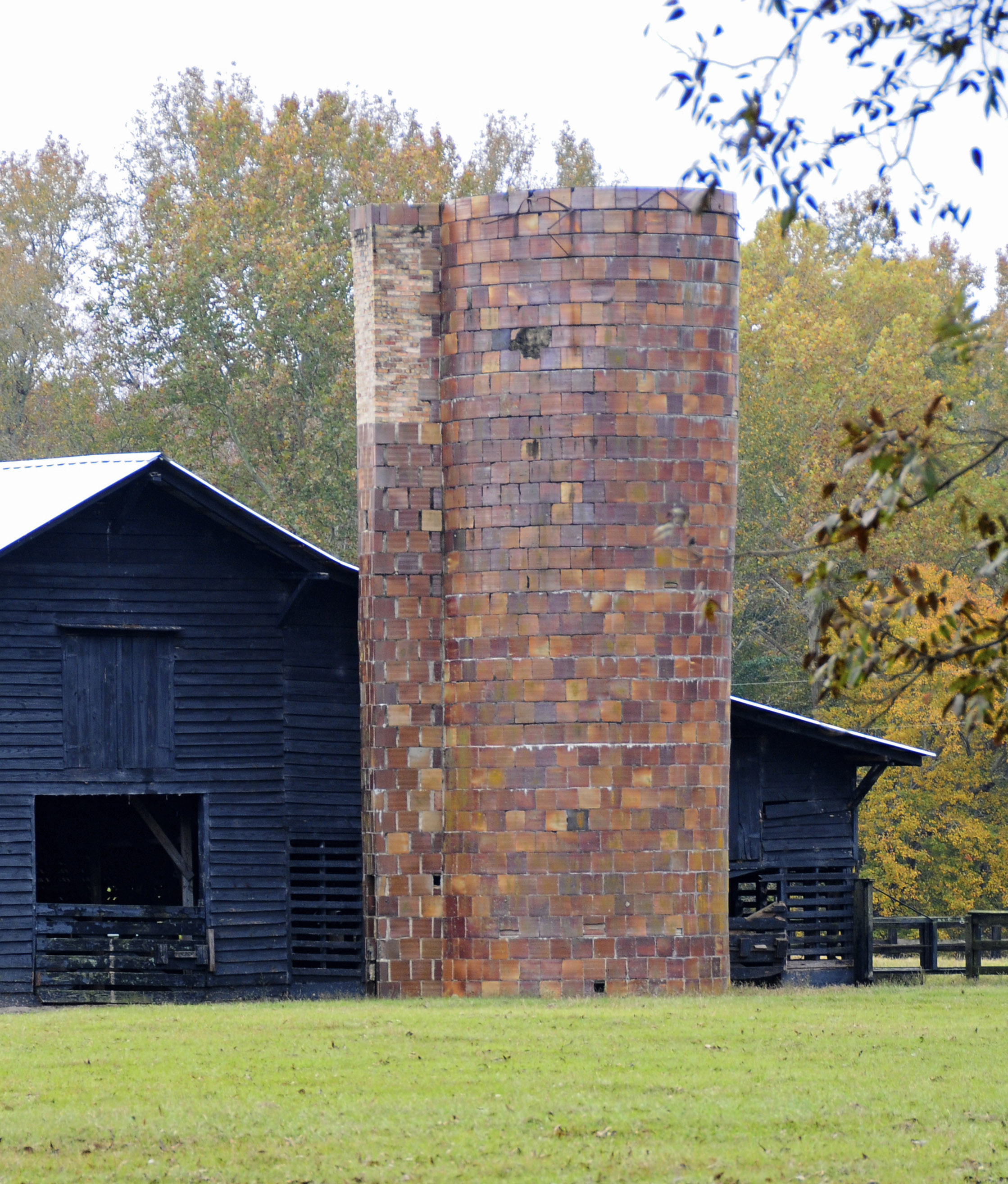 Puritan Farm, St. Mathews vicinity, South Carolina